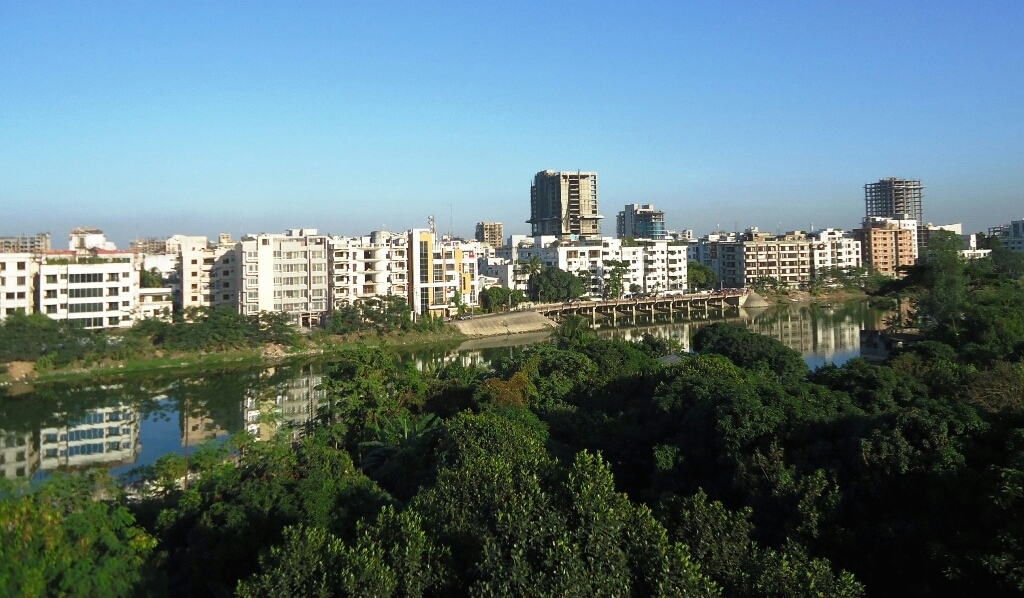 View of lake from Banani, Dhaka, Bangladesh.